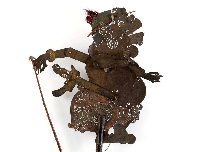 Wayang kulit figure, representing Delem, servant